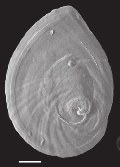 Photo of the inner side of the operculum of Marstonia comalensis USNM 874926. Scale bar is 200 μm.